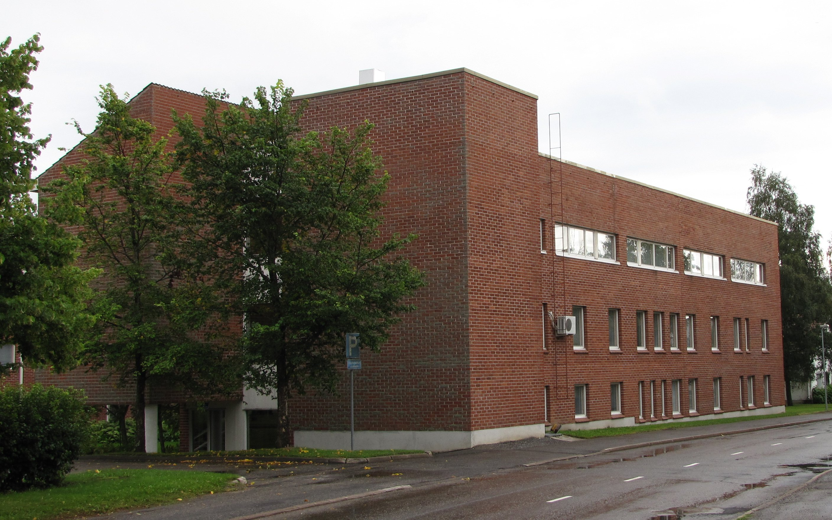 Kauhajoki Town Hall in Finland.